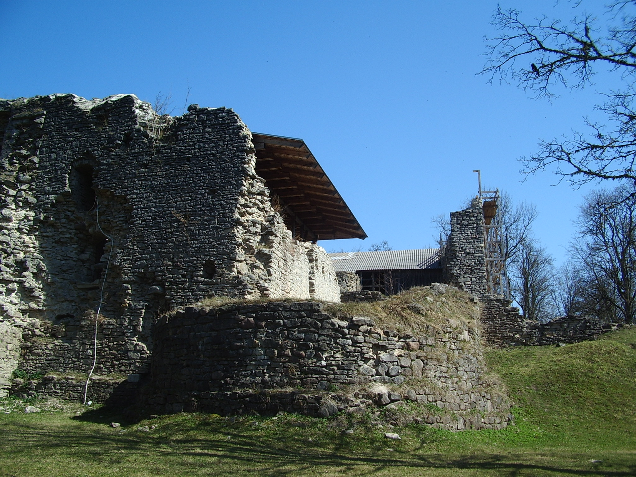 Padise monastery in Harju county. Built in 14th century.